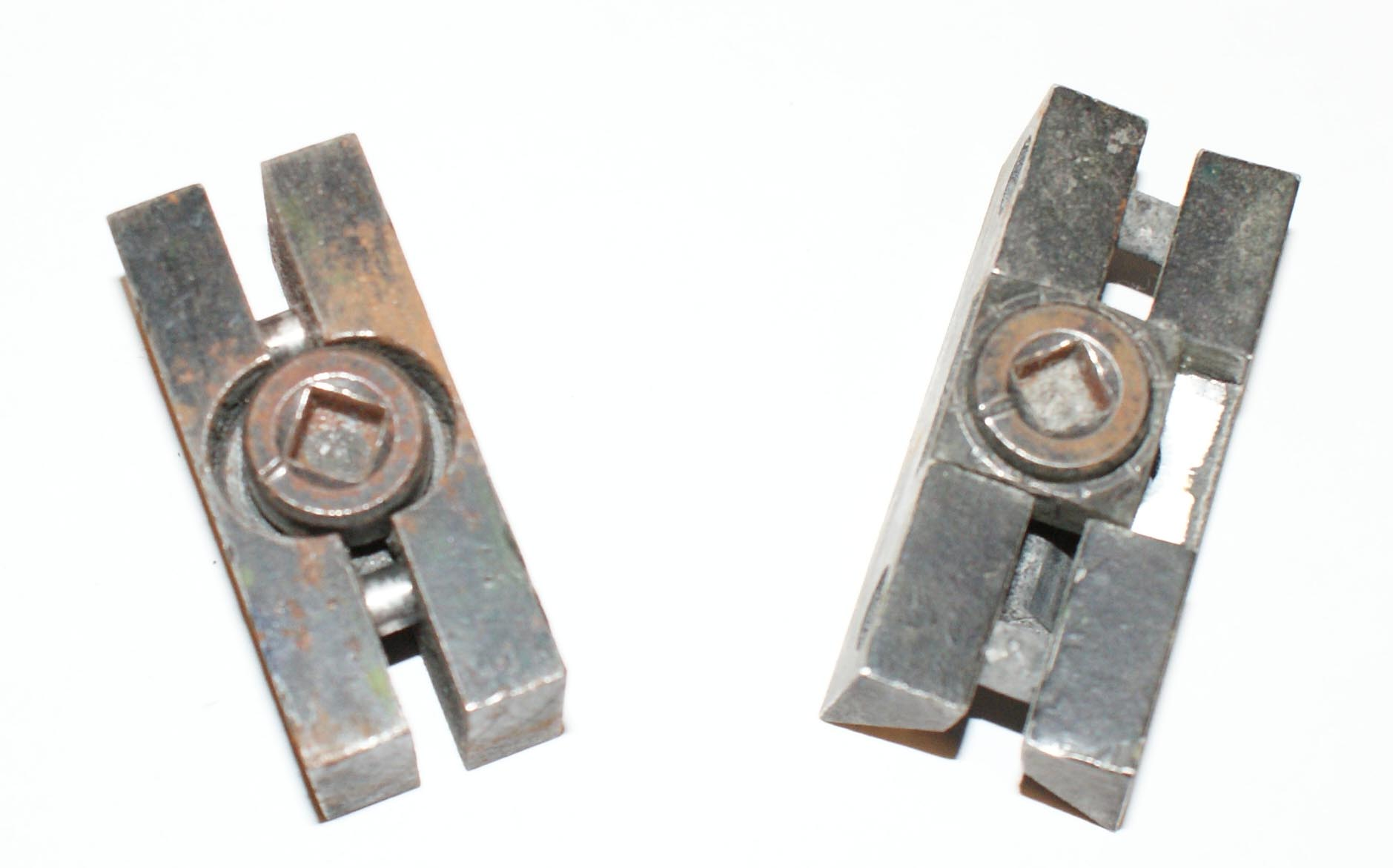 Quoins. A quoin is a metal expanding device used to secure typographical elements in a chase. Central screw with two adjustable rectangular wedges. Accession Number: SH.2009.401 A quoin is a metal wedge which fits into the space between the type and the edge of a chase, and is tightened by a quoin key to fix the metal type in place. A chase is a metal frame in which type and blocks are placed and held ready to print by letterpress. Edinburgh City of Print is a joint project between City of Edinburgh Museums and the Scottish Archive of Print and Publishing History Records (SAPPHIRE). The project aims to catalogue and make accessible the wealth of printing collections held by City of Edinburgh Museums. For more information about the project please visit